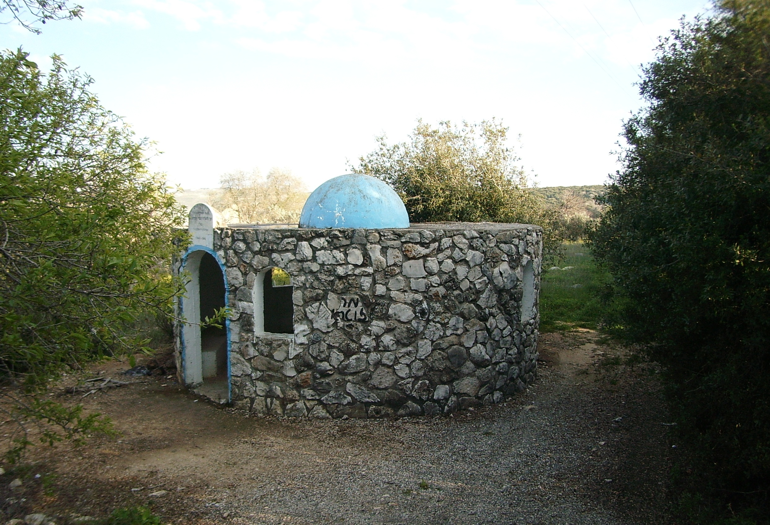 קבר מר זוטרא בברעם